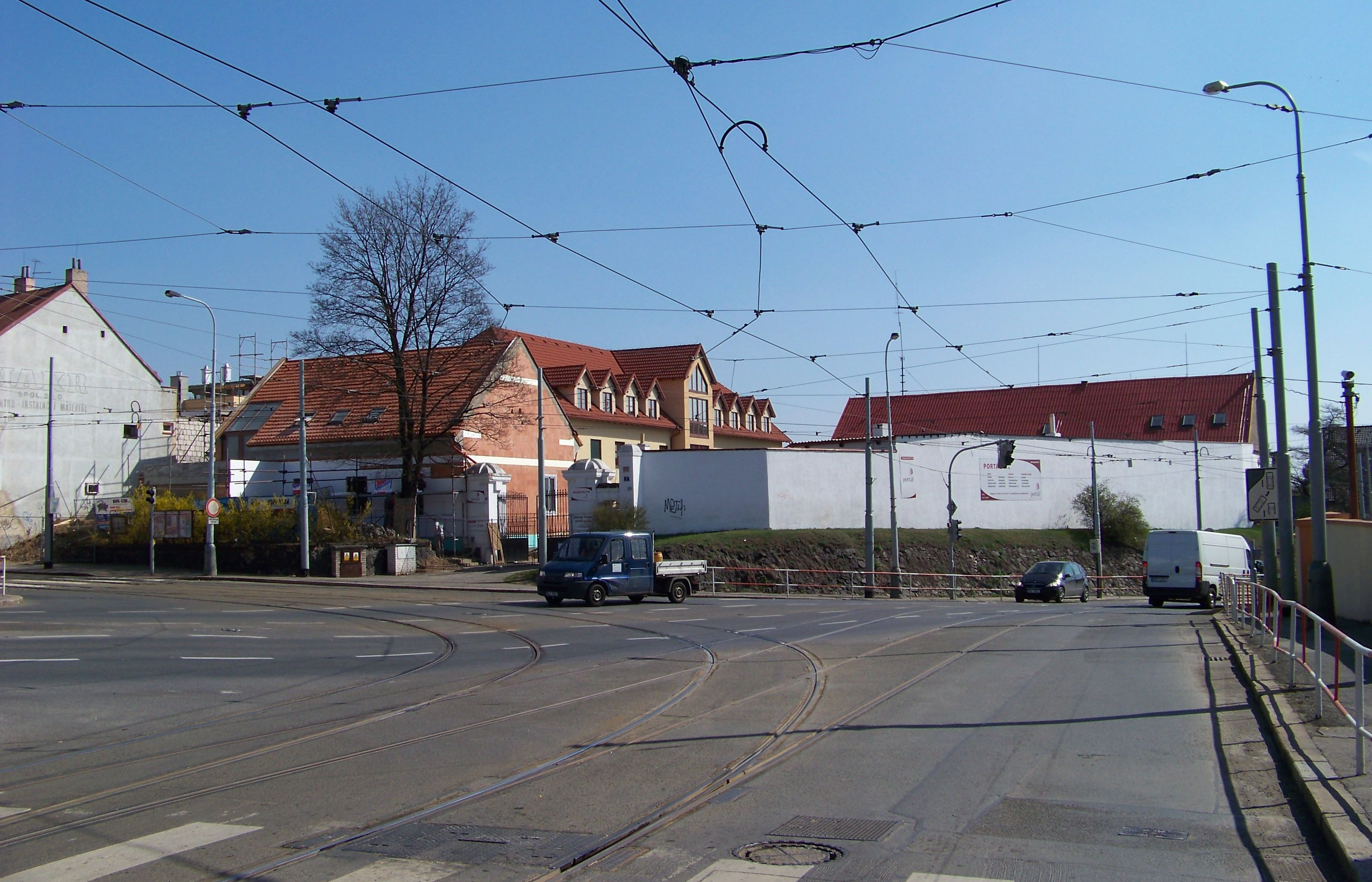 Prague-Kobylisy, the Czech Republic. Zenklova and Klapkova street, Portál publishing house, seen from Trojská street. - OpenStreetMap(Info)